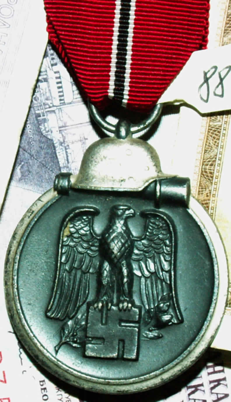 Eastern Front Medal (second world war), front side.